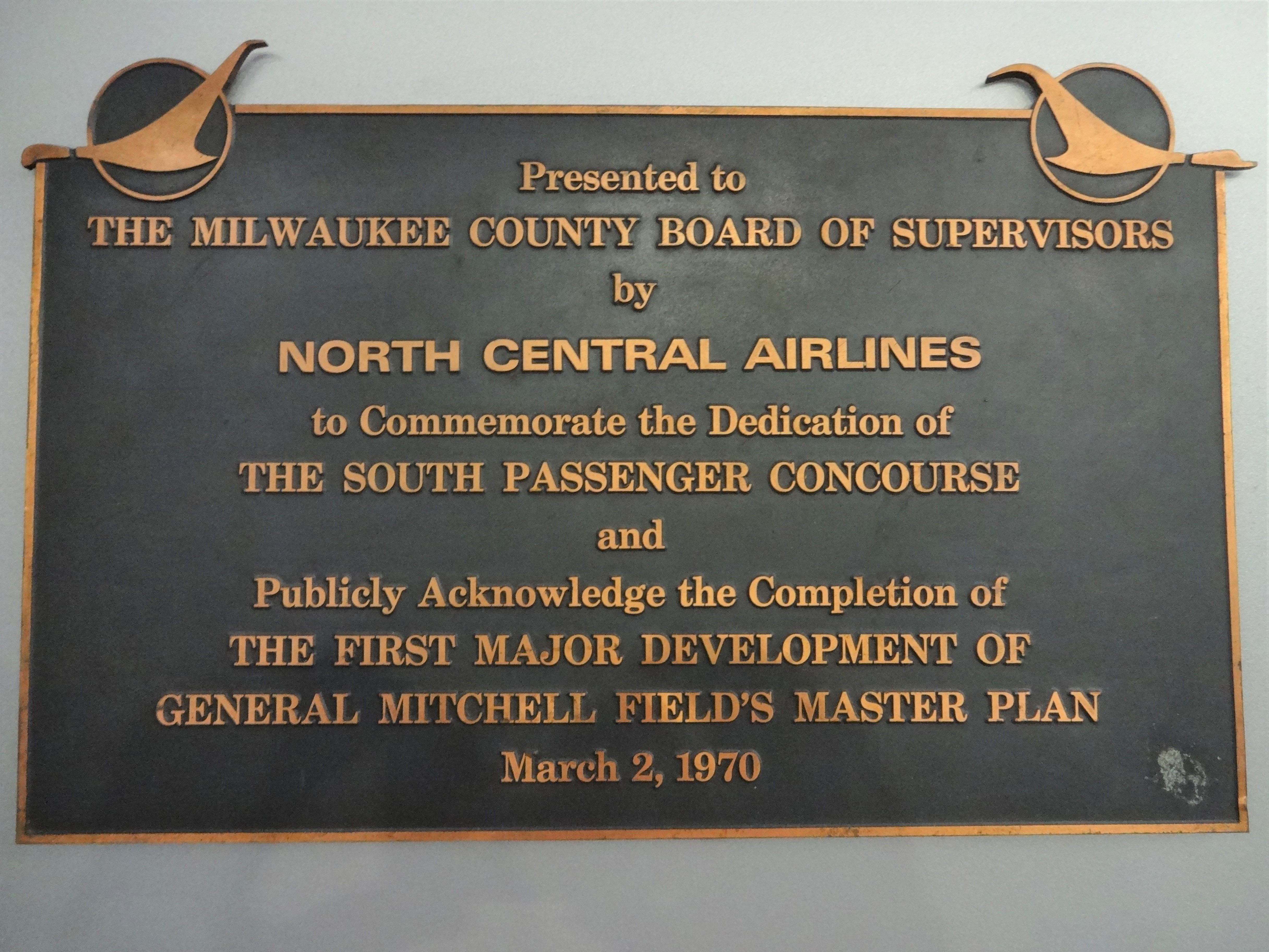 Photo taken at Mitchell Airport on December 23, 2014 in Concourse E.